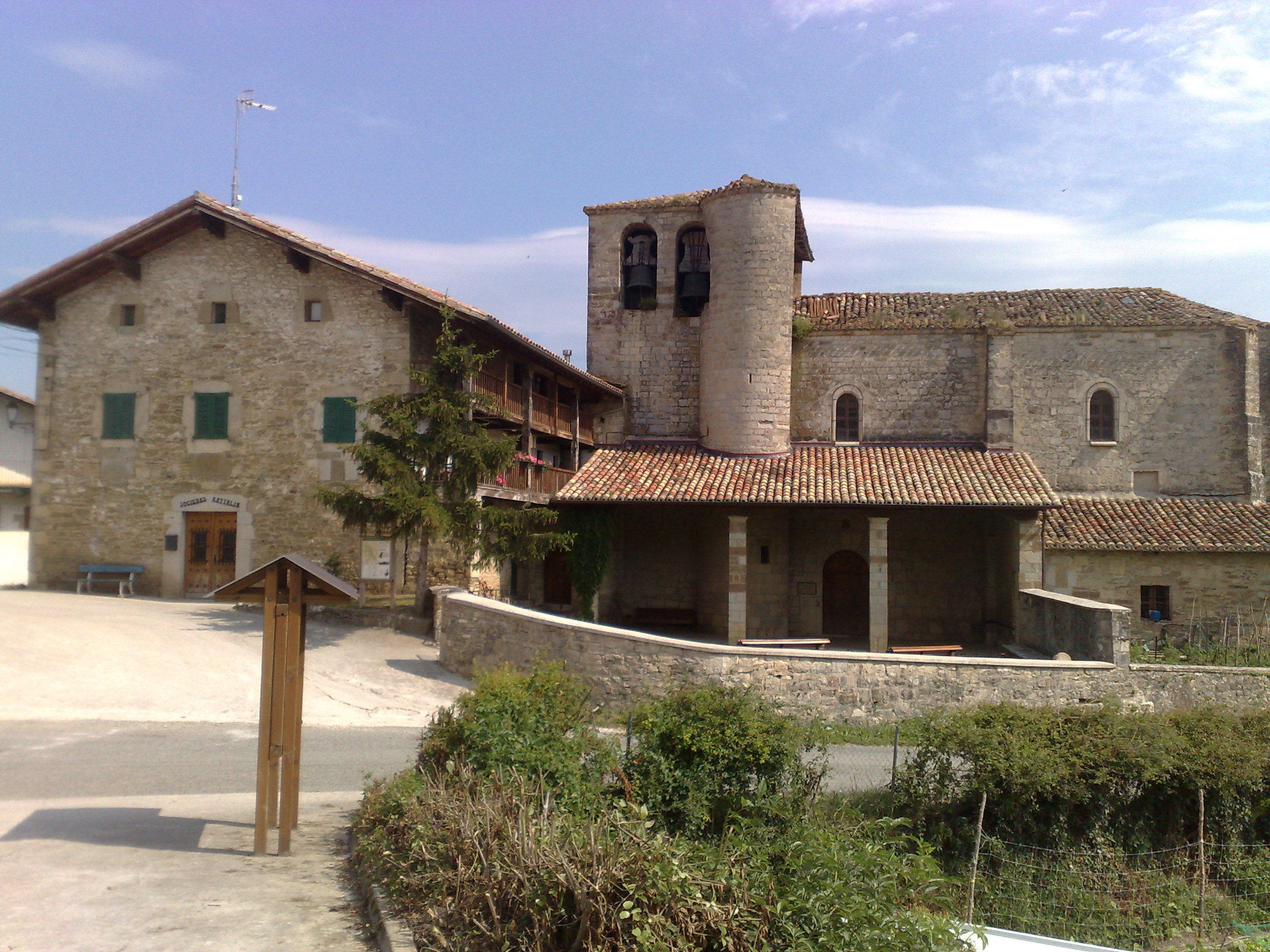 Apezerena (priest's house) and church of Santa Katalina, Ziaurritz, Odieta, Navarre, Basque Country.